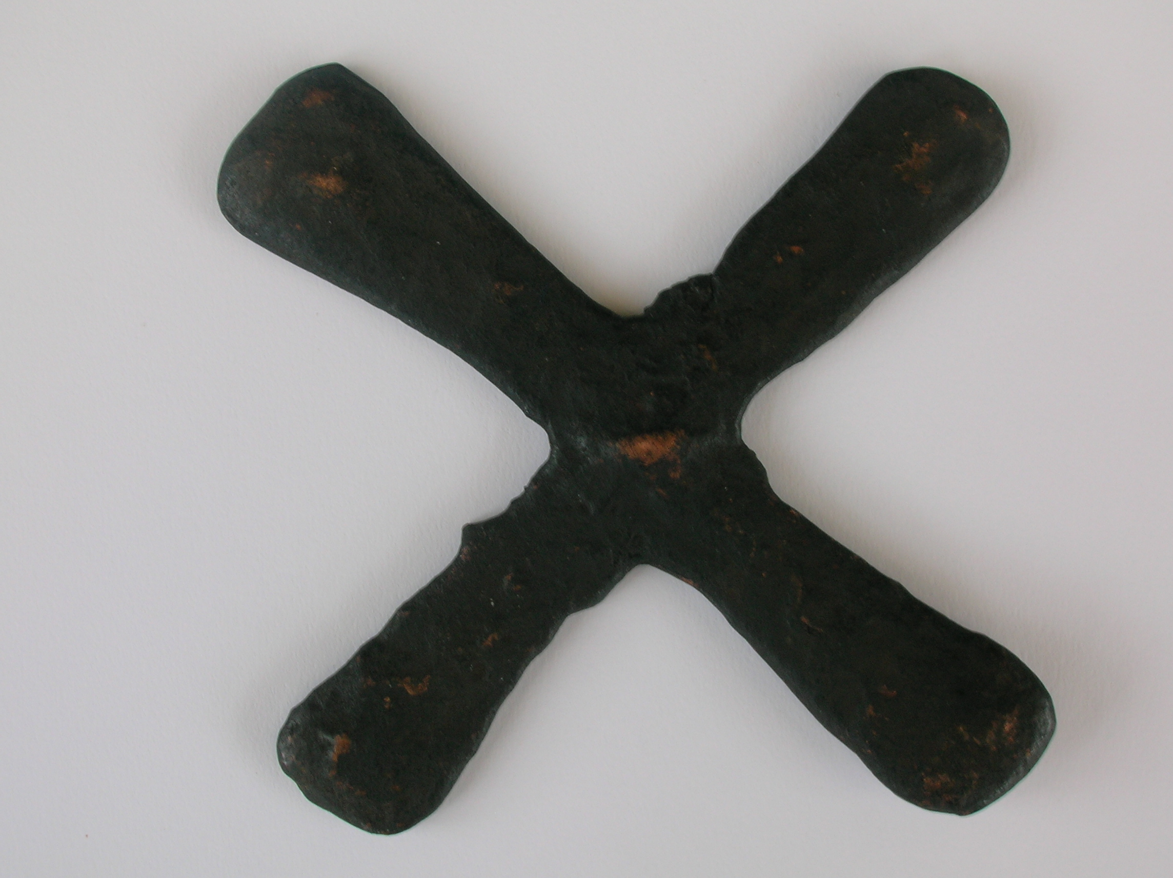 A Katanga Cross. A form of archaic money from the Katanga Province of the Democratic Republic of the Congo. Molten metal brass was poured into a sand mould and then allowed to cool.